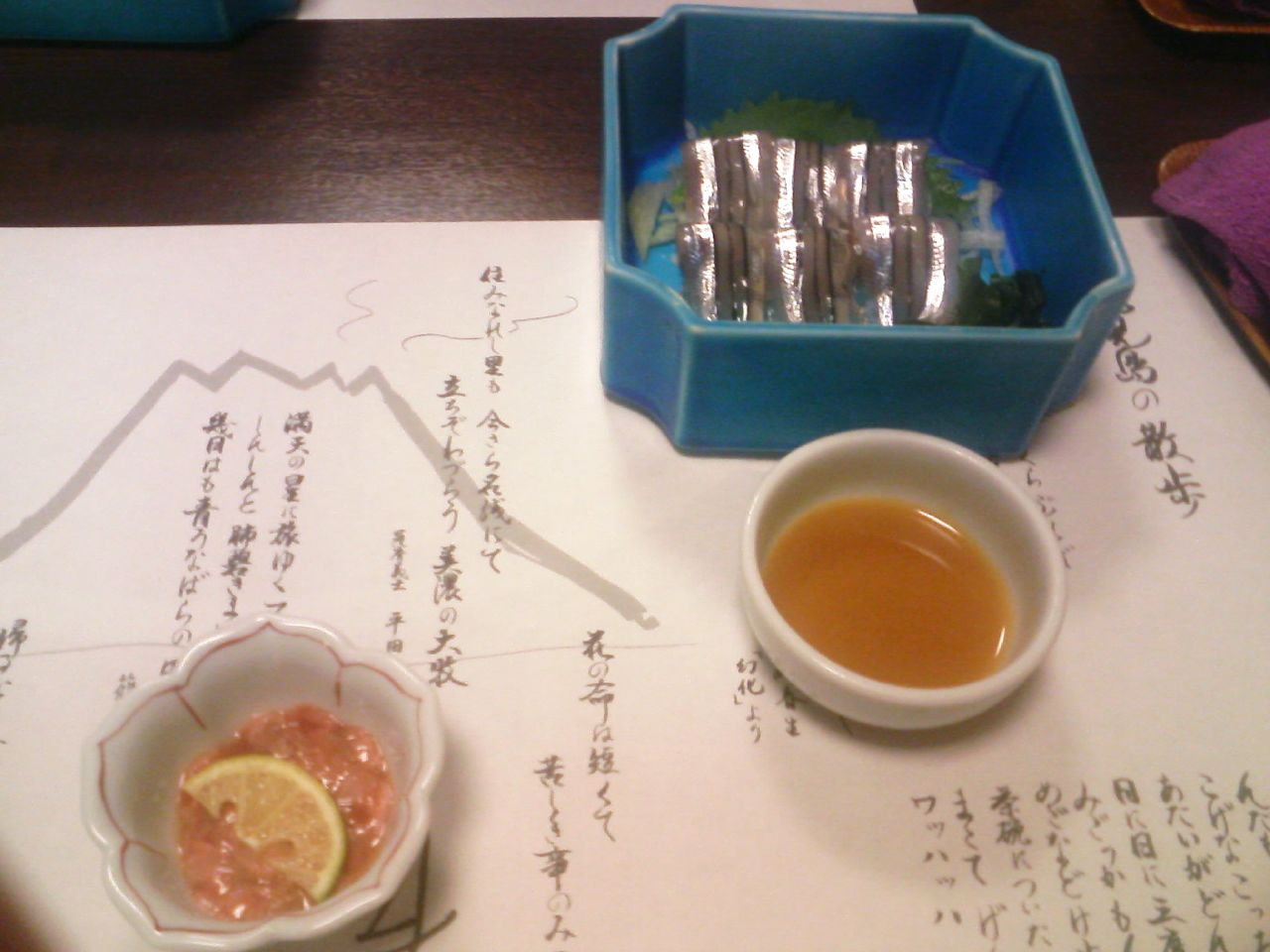 Sashimi of slender sprat - Spratelloides gracilisきびなごの刺身（熊襲亭）